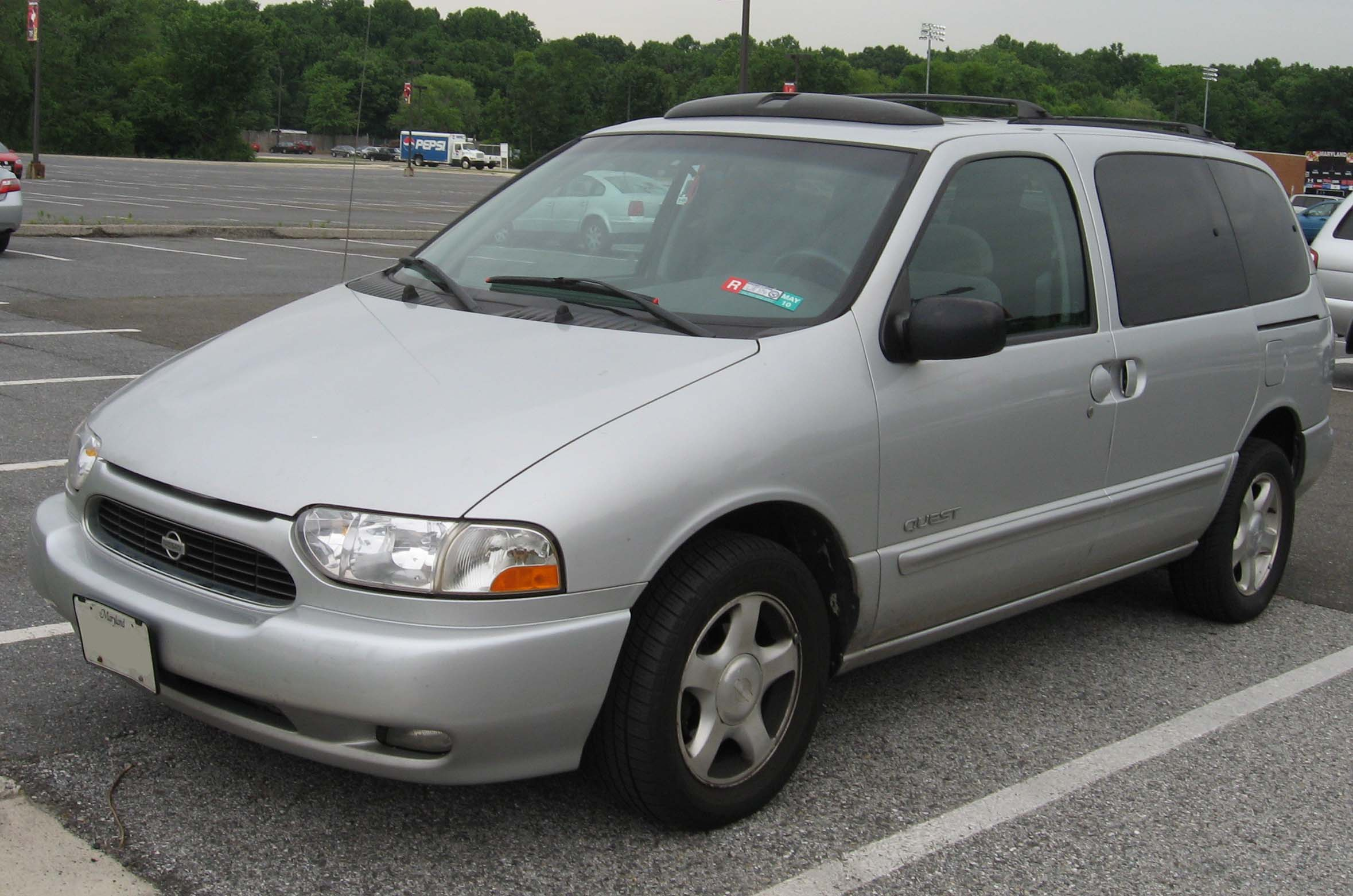 1999-2002 Nissan Quest photographed in College Park, Maryland, USA.